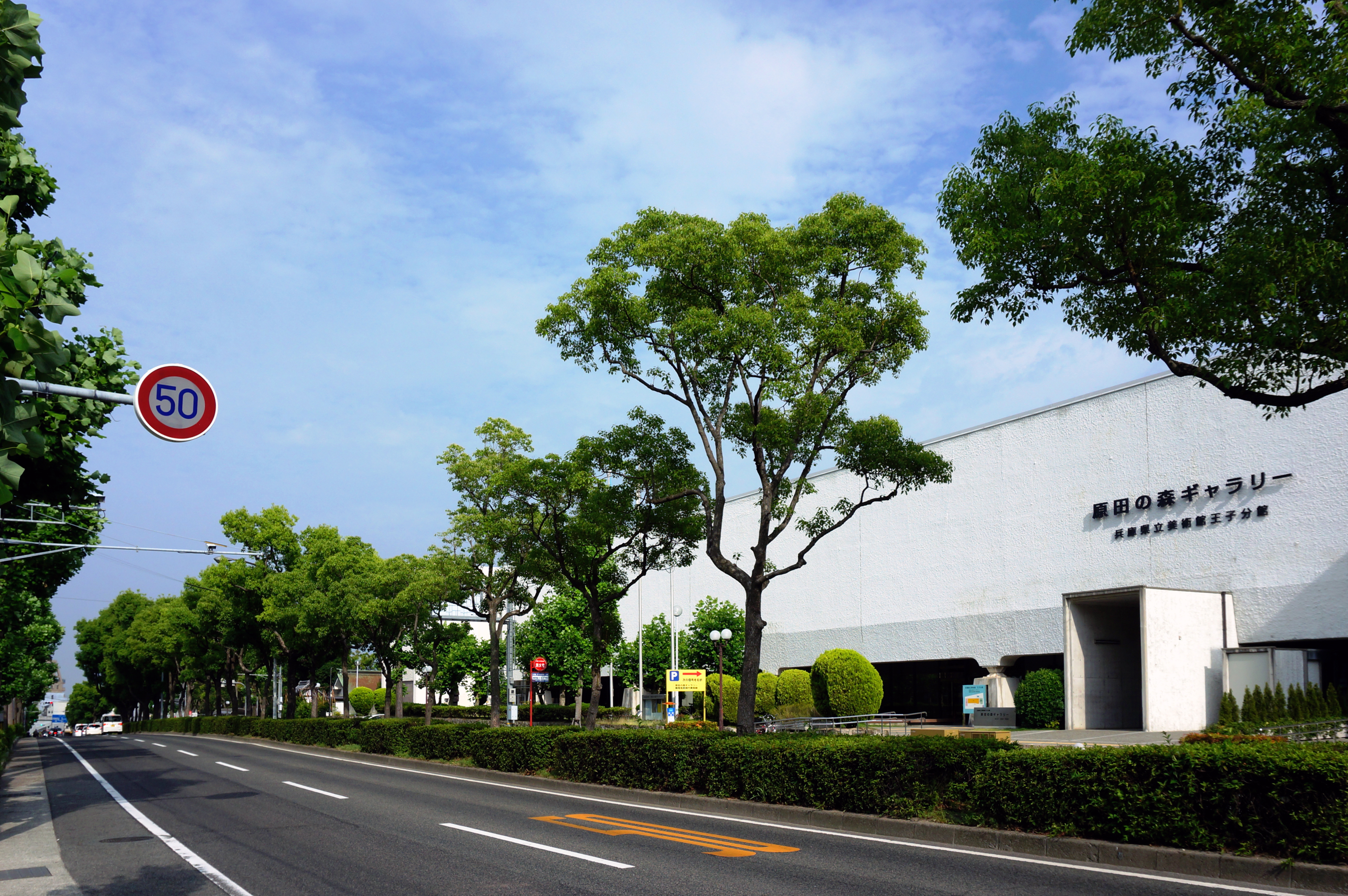 Harada Street in Nada-ku, Kobe, Hyogo prefecture, Japan